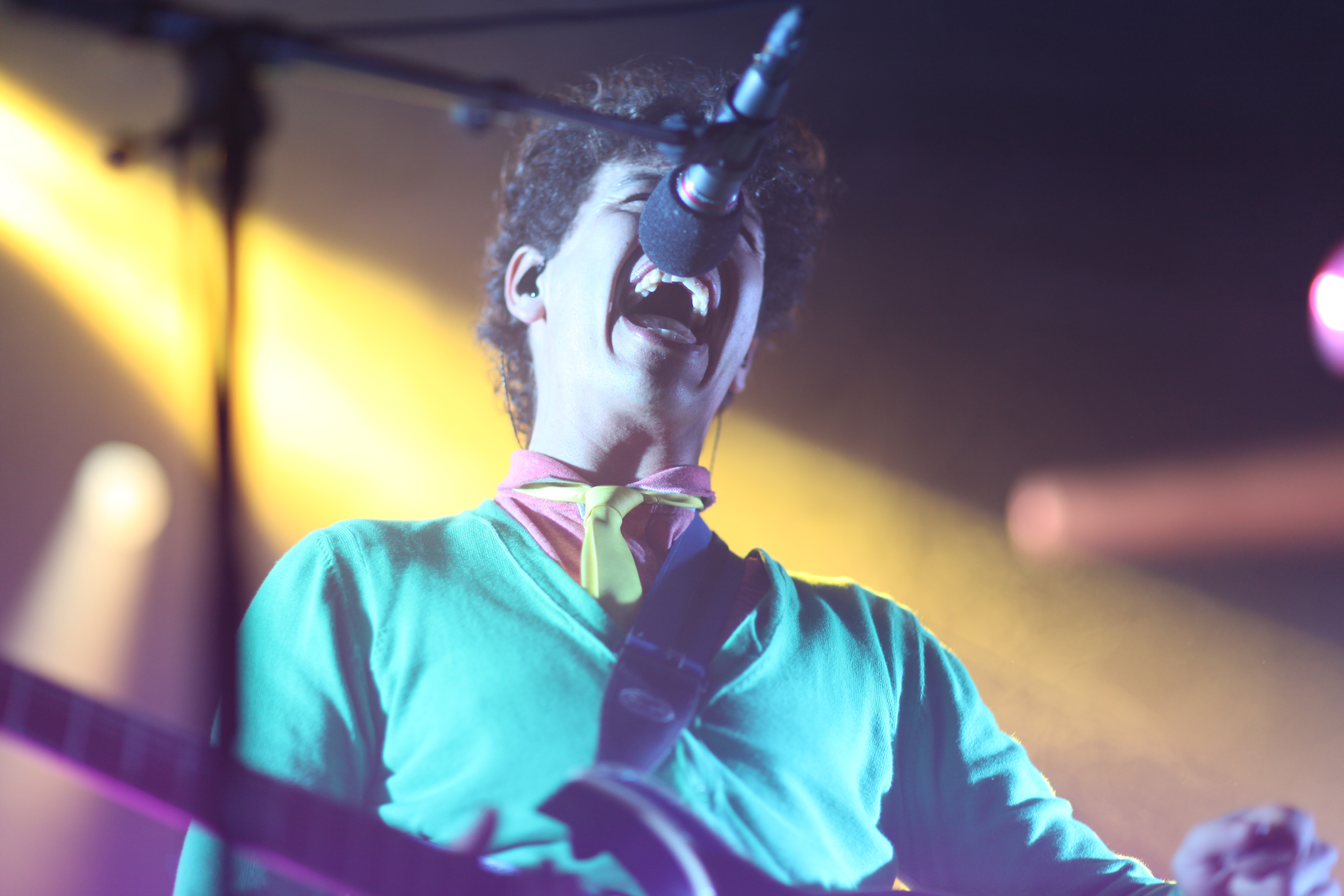 Picture of Cato Sundberg. Donkeyboys release concert for their album "Caught In A Life" (2009). Norsk (bokmål): Bilde av Cato Sundberg under Donkeyboys release konsert for albumet "Caught In A Life" (2009).